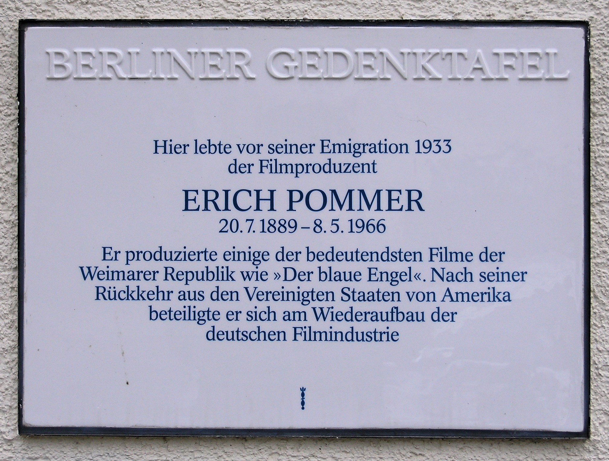 Berlin memorial plaque, Erich Pommer, Carl-Heinrich-Becker-Weg 16-18, Berlin-Steglitz, Germany